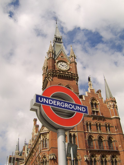 St Pancras Station And the Kings Cross Underground sign.